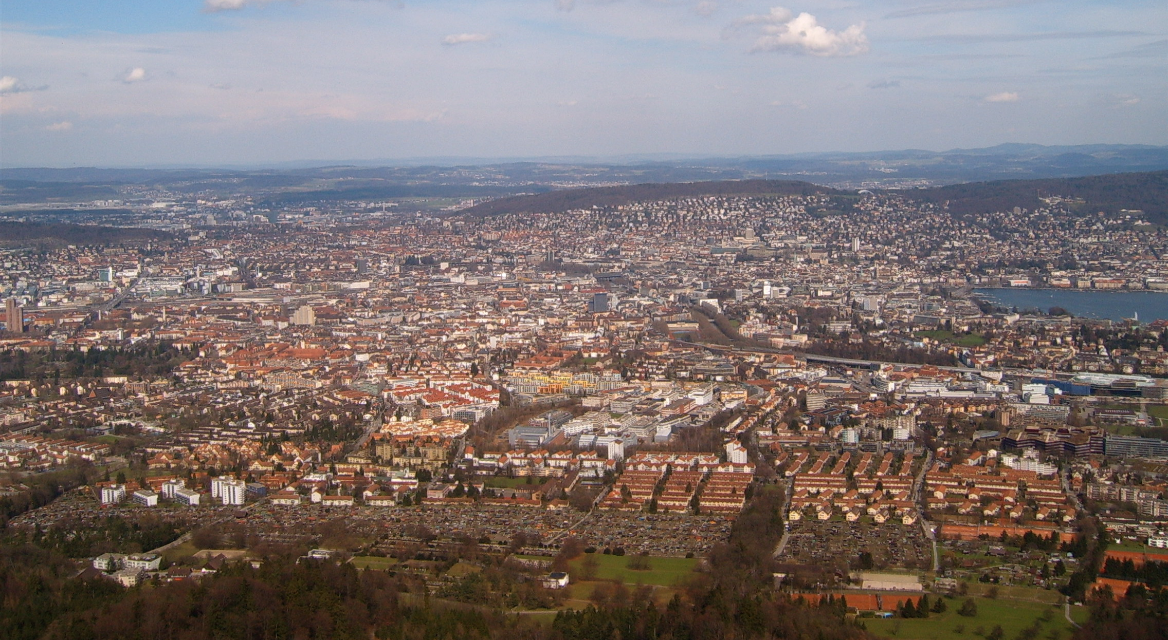 Zürich, seen from Üetliberg look-out tower Photographer: Markus Bernet Date: 04/01/2006